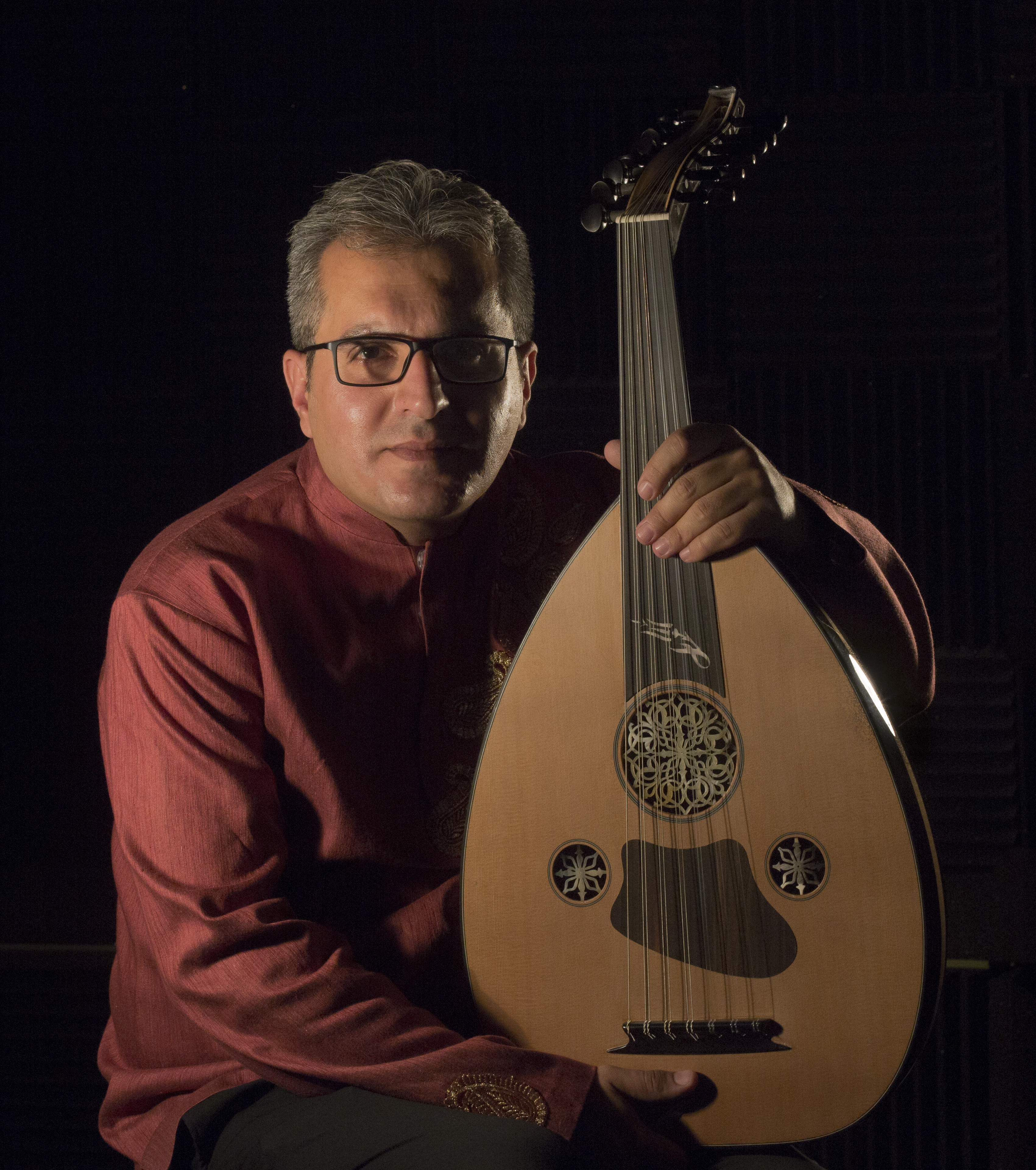 Iranian Famous Oud Player- Salar Ayoubi